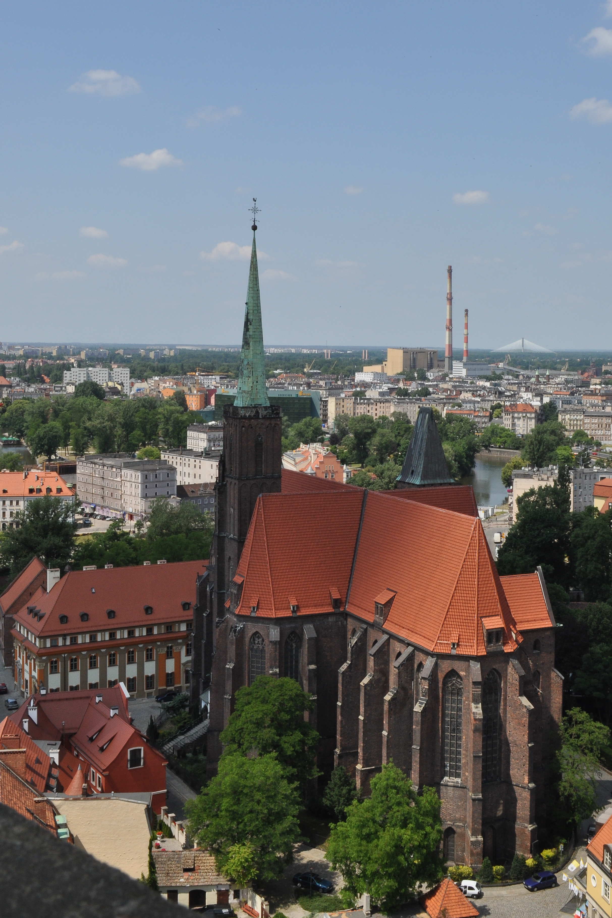 The church of the Holy Cross in Wrocław